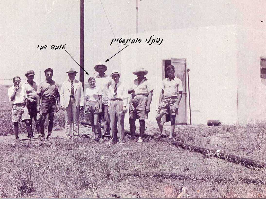 Rishpon first years, Settlements in Israel